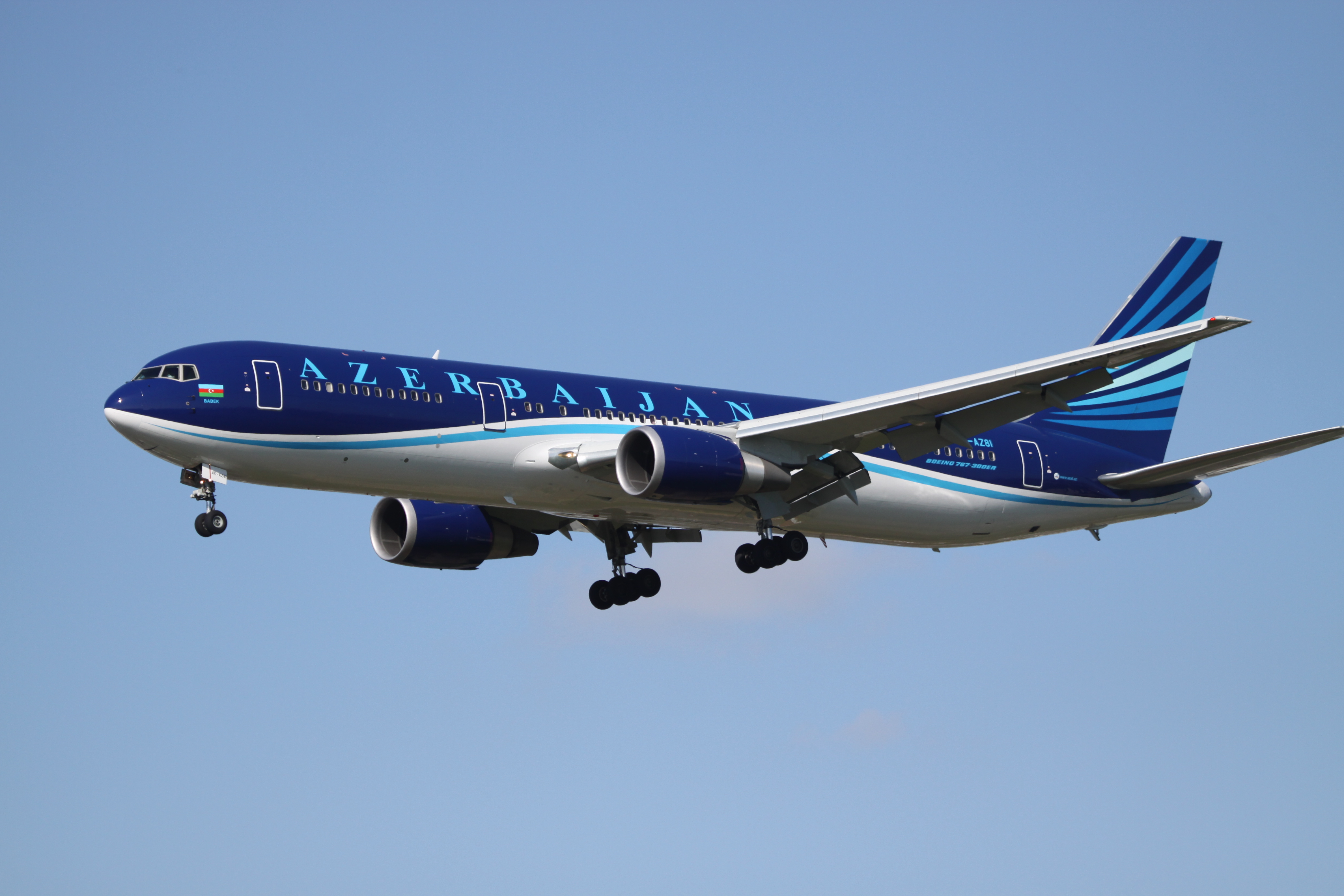 At London Heathrow